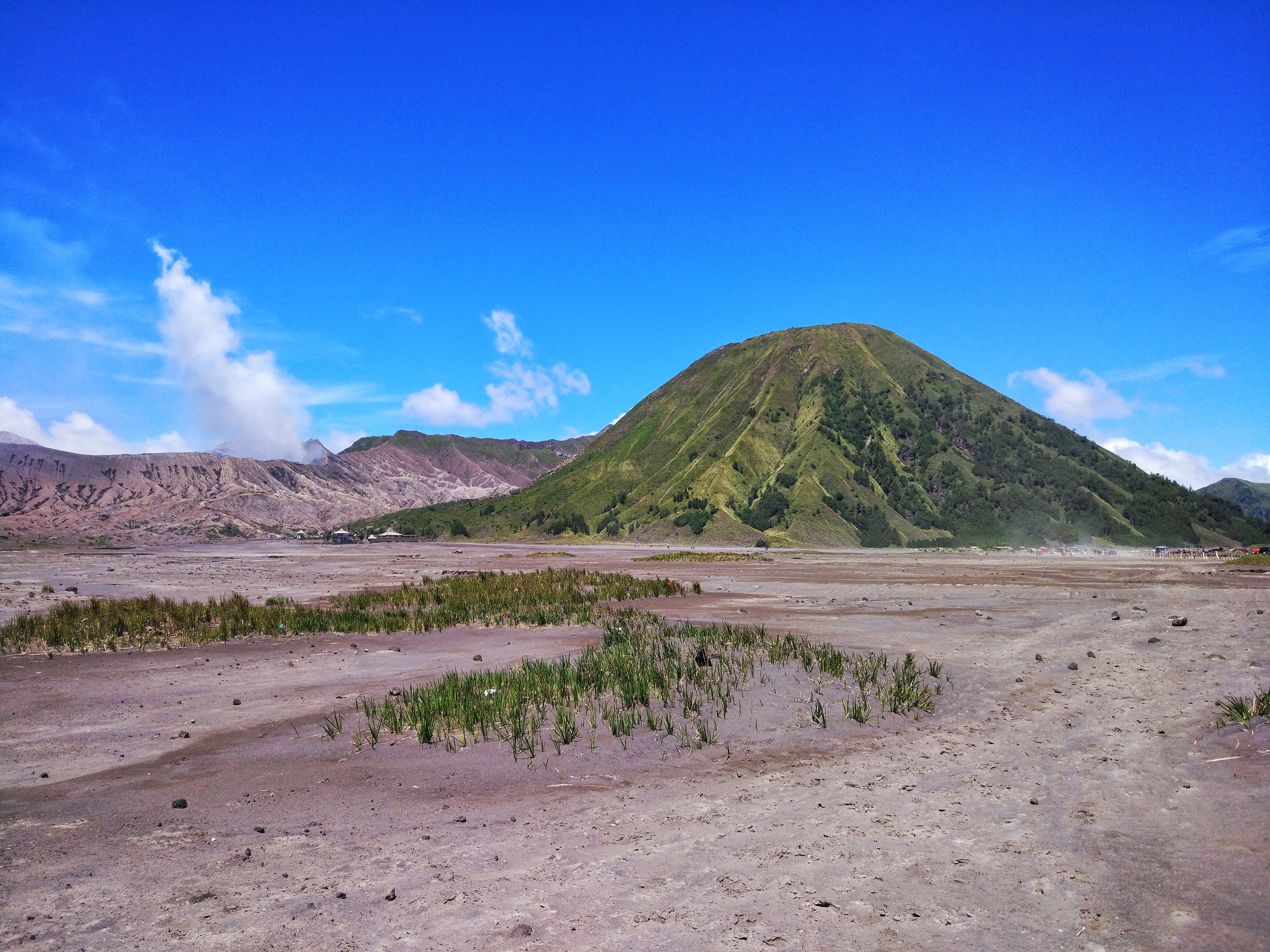 Gunung Batok, viewed from the seas of sand on the caldera of the Bromo complex in East Java, Indonesia. Grasses and shrubs can be seen growing on the few soil patches among the sands, while the mountain is littered with prominent trees.